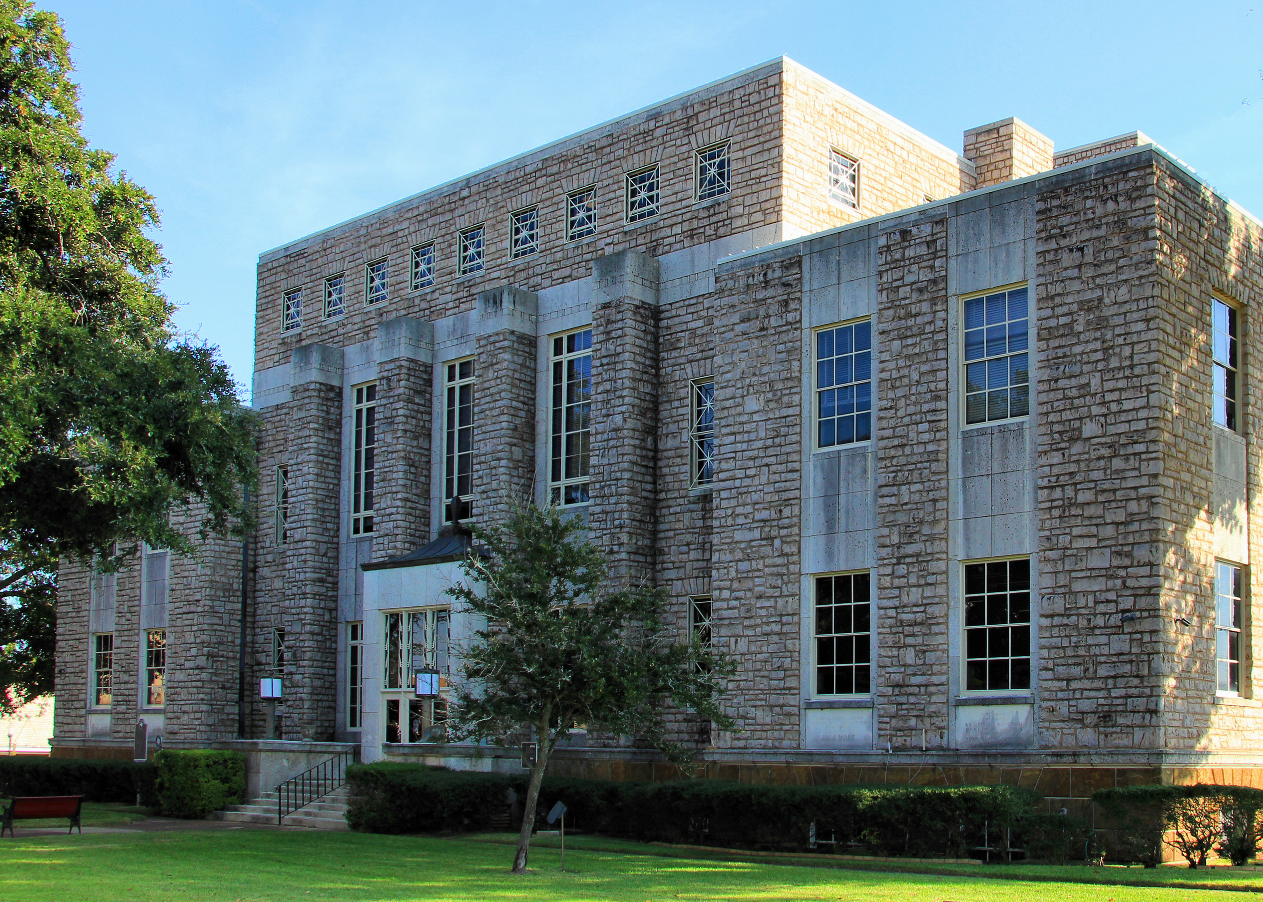 The Cherokee County Courthouse in Rusk, Texas, United States. The courthouse was built out of limestone in 1940-1941 and was designated a Recorded Texas Historic Landmark in 1991.